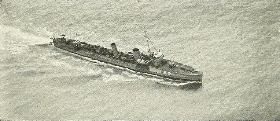 Aerial photograph of British Yarrow M class destroyer with pendant H 69.